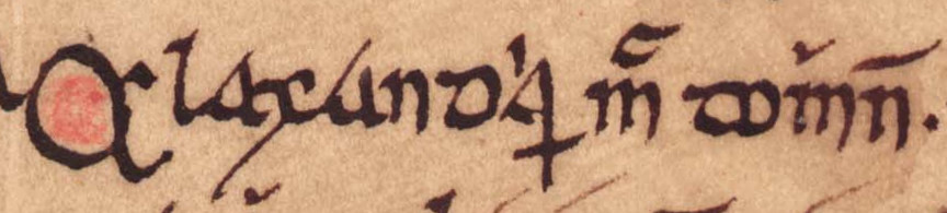 An excerpt from folio 71v of Oxford Bodleian Library MS Rawlinson B 489 (the Annals of Ulster). The excerpt appears to concern Alasdair Óg Mac Domhnaill, Lord of Islay (died 1299?).